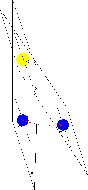 Drawing showing why the true solar day is longer than the mean solar day at the equinox